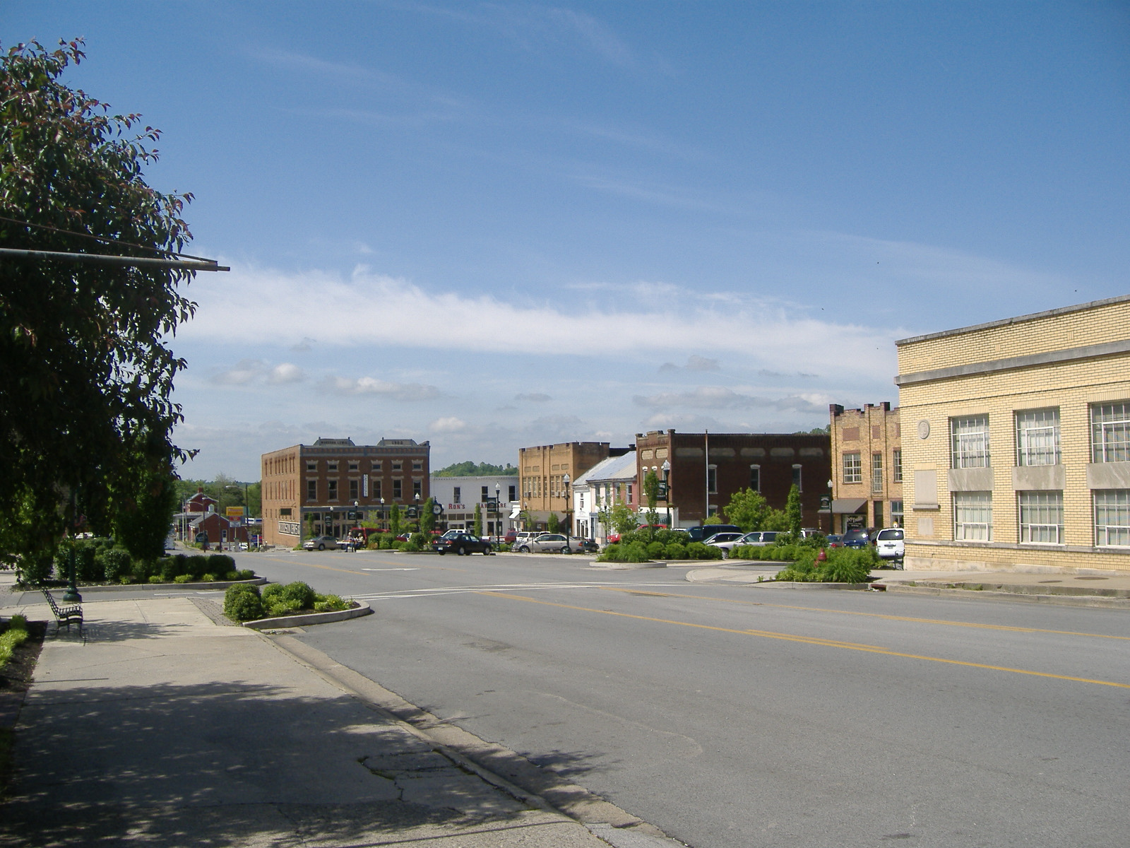 View from the north of the public square in Greensburg, Kentucky, United States. The square is part of the Downtown Greensburg Historic District, a historic district that is listed on the National Register of Historic Places.